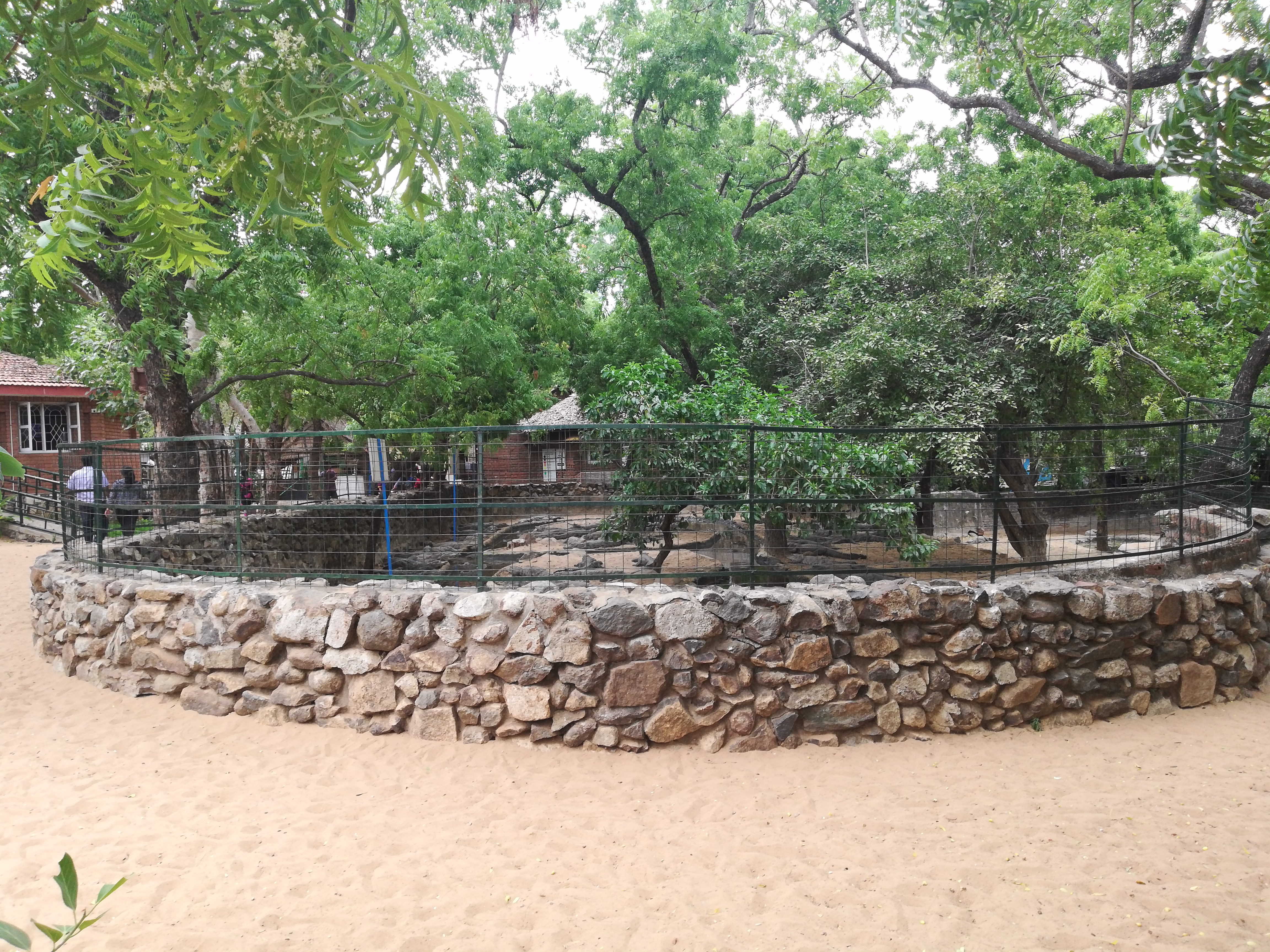 Typical enclosure at the CrocBank, Chennai, on 21 July 2018